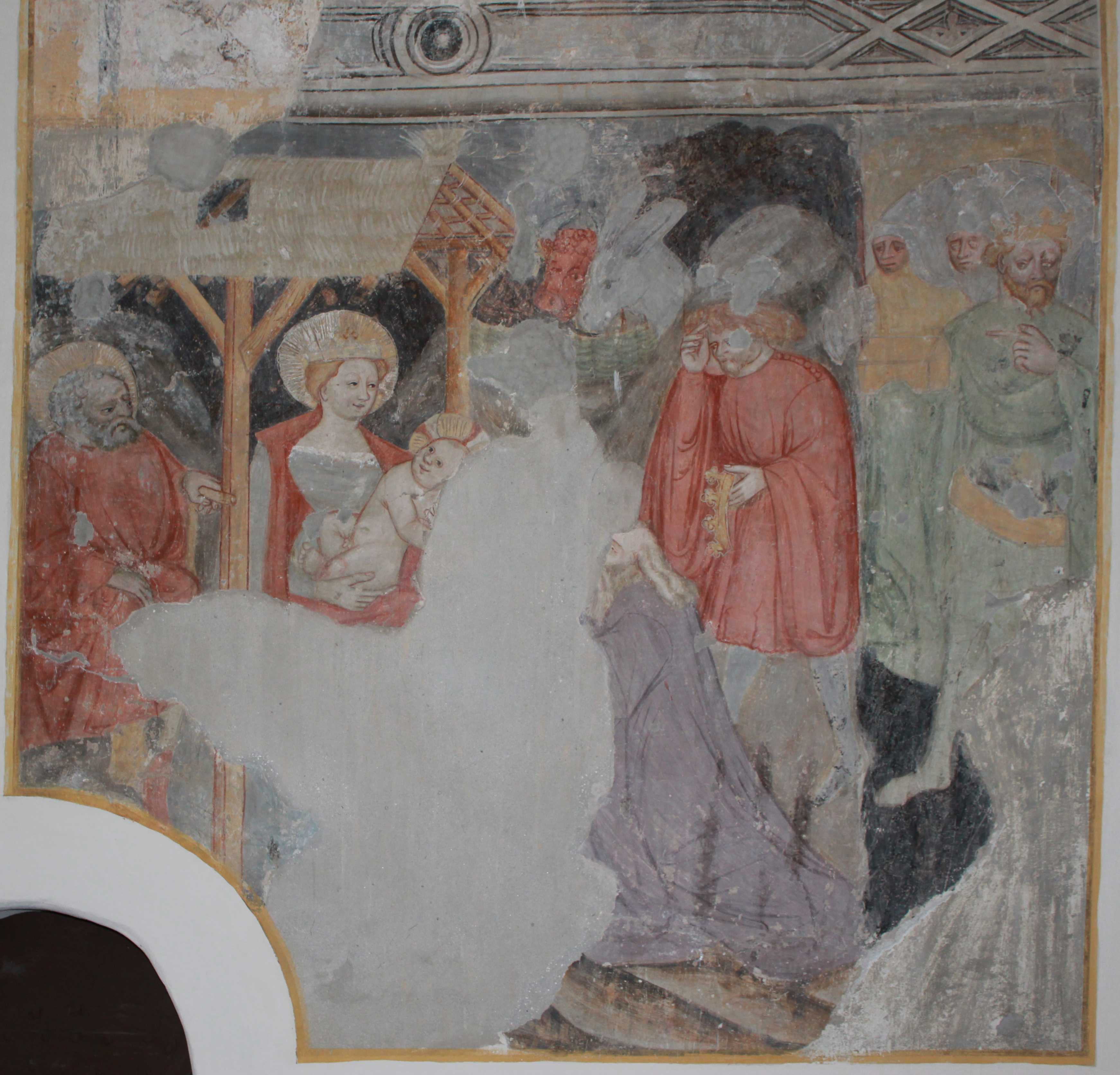 Church of Egg in the community of Hermagor